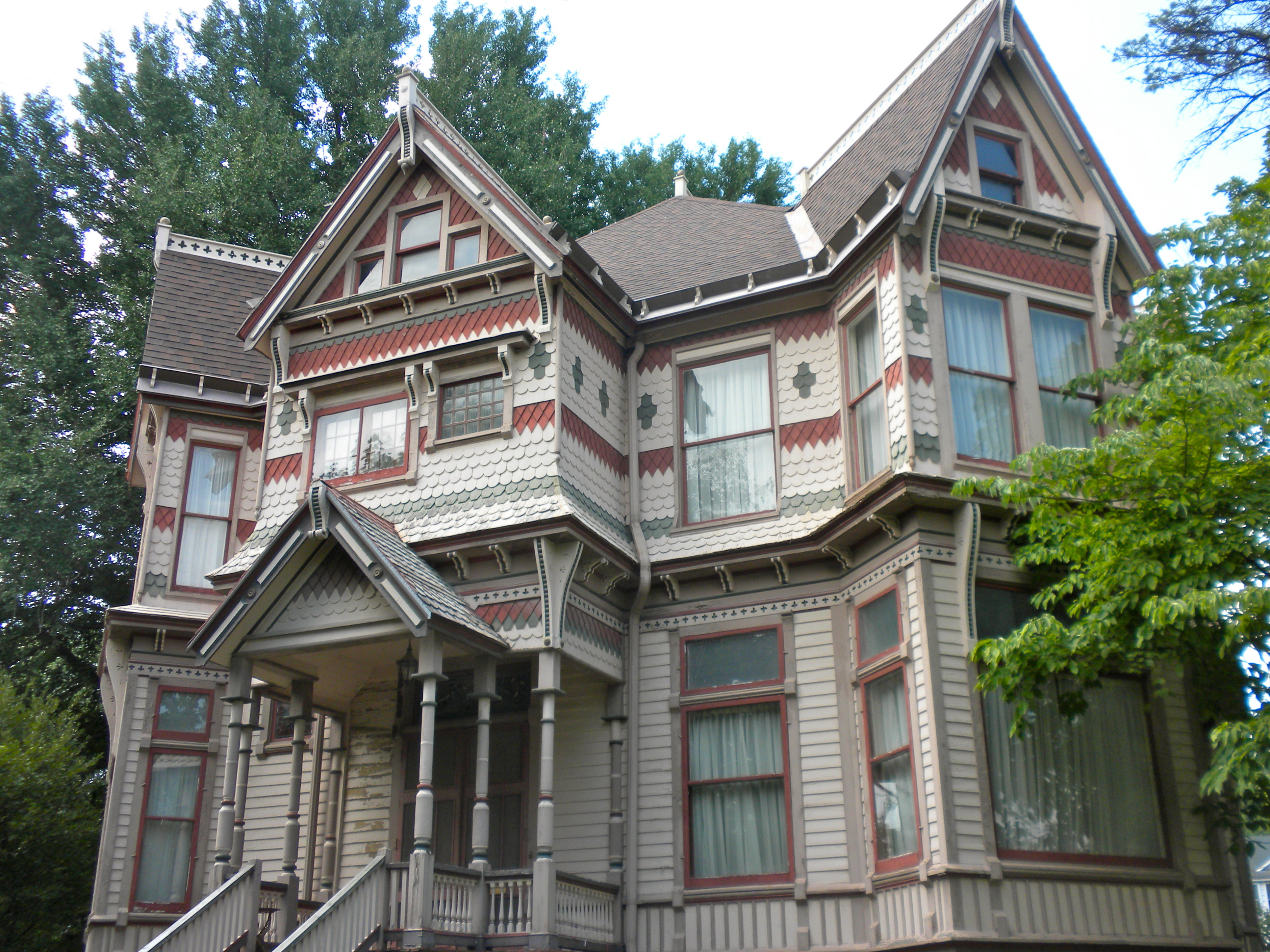 Gov. Lloyd Crow Stark House and Carriage House on the NRHP since December 21, 1987. At 1401 Georgia St., in Louisiana, Missouri. Just to be sure you're paying attention: Georgia is the street, Louisiana is the town, Missouri is the state, and the USA is the country. Home of an early governor of Missouri.